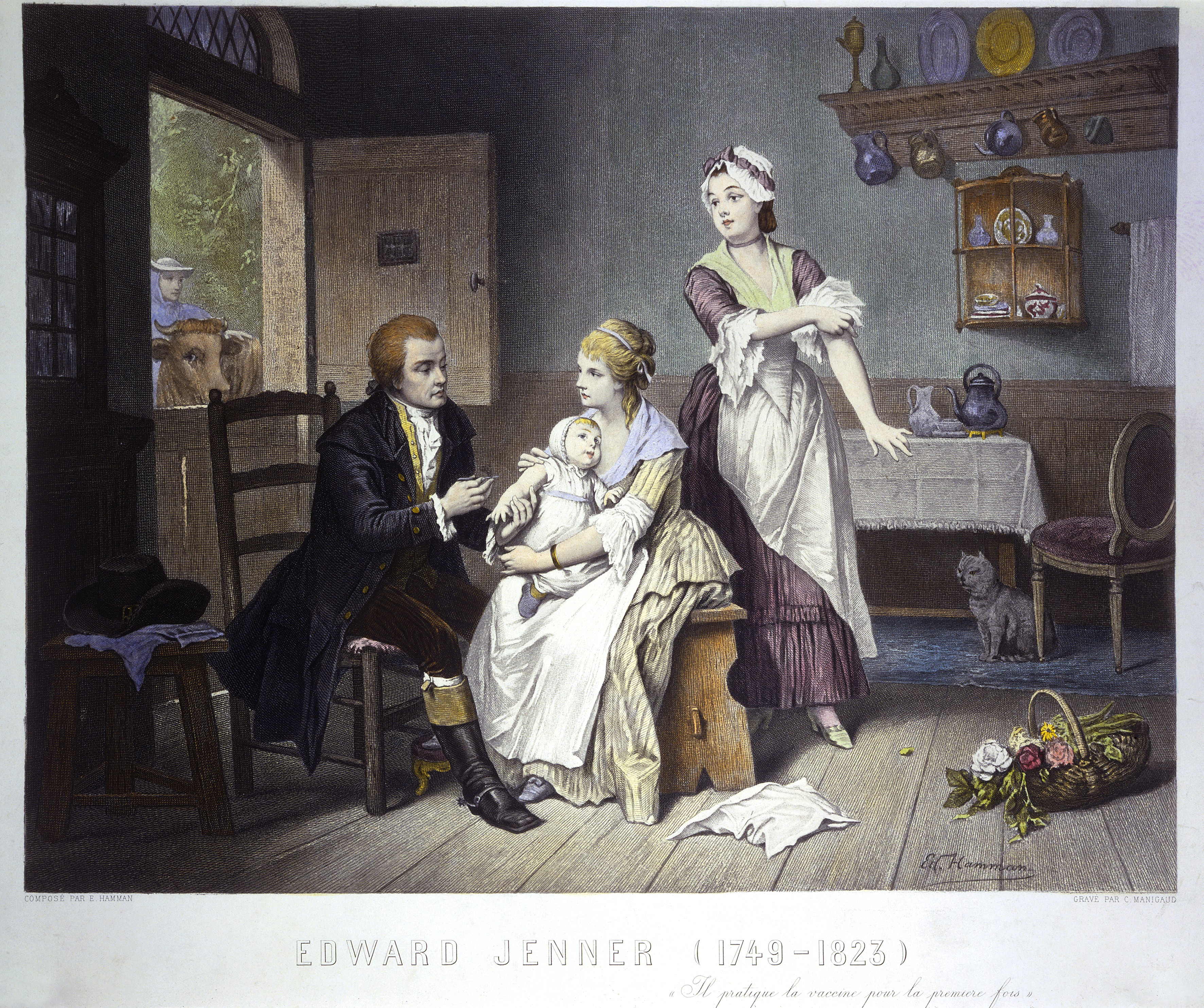 Edward Jenner, vaccinating his young child, held by Mrs Jenner; a maid rolls up her sleeve, a man stands outside holding a cow. Coloured engraving by C. Manigaud after E Hamman. Iconographic Collections Keywords: Vaccination; Immunization; Disease Transmission, Infectious; Edward Jenner; E. J. C. Hamman; C. Manigaud